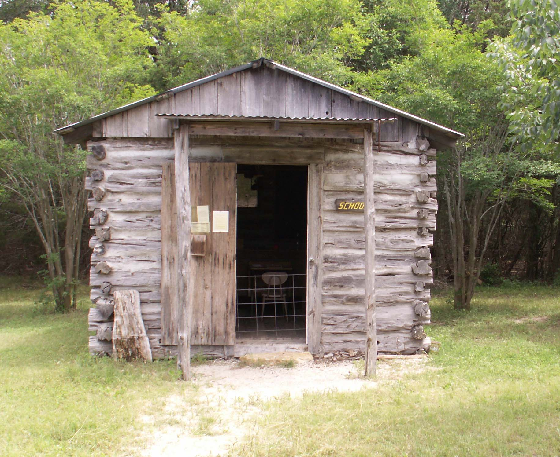 I own this image. I took the photo on April 21, 2007 at Fort Croghan. Emuchick 23:56, 20 June 2007 (UTC)